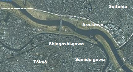 Confluence of the Shingashi river and the Sumida river.